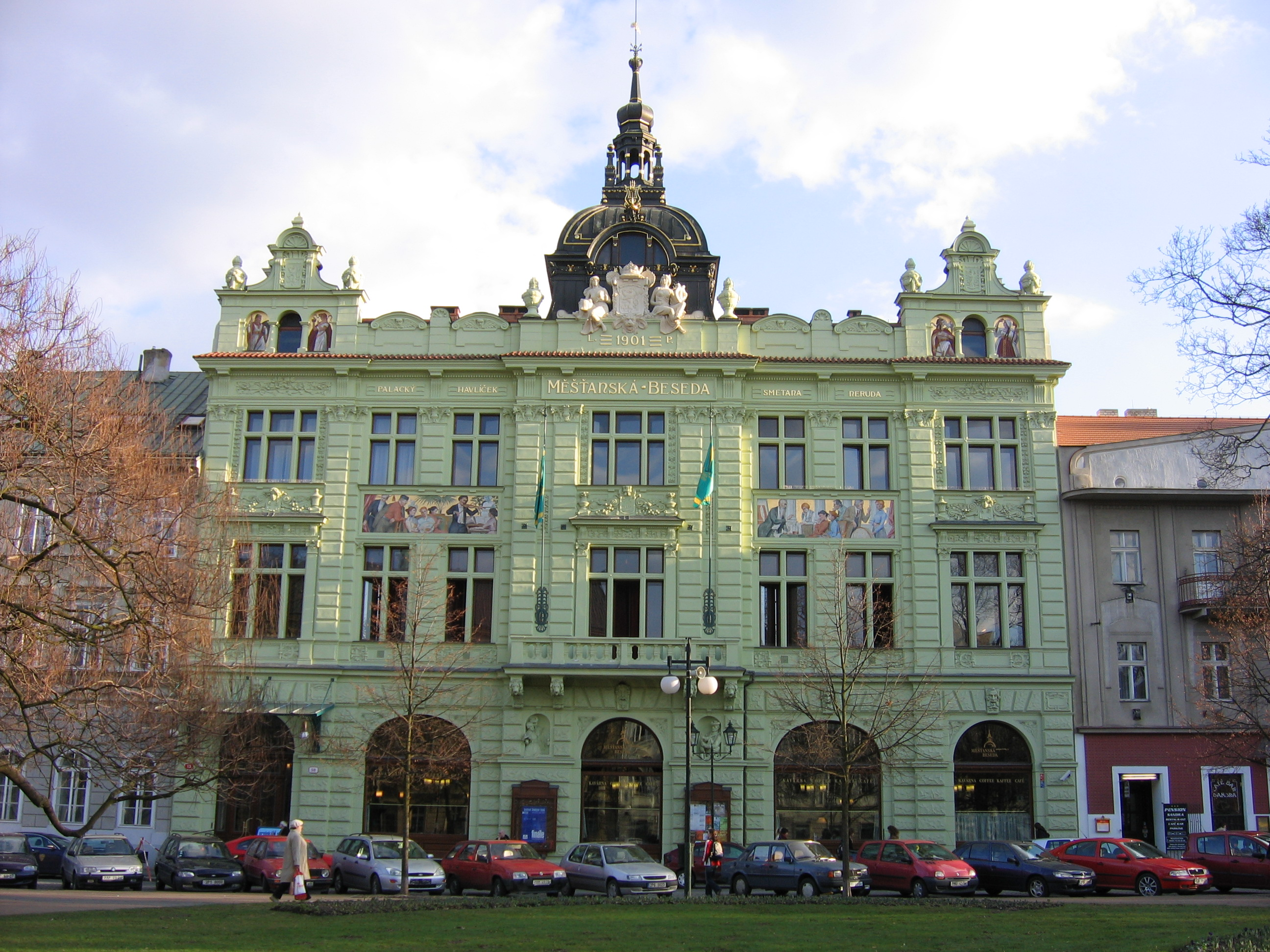 City of Plzeň, Czech Republic